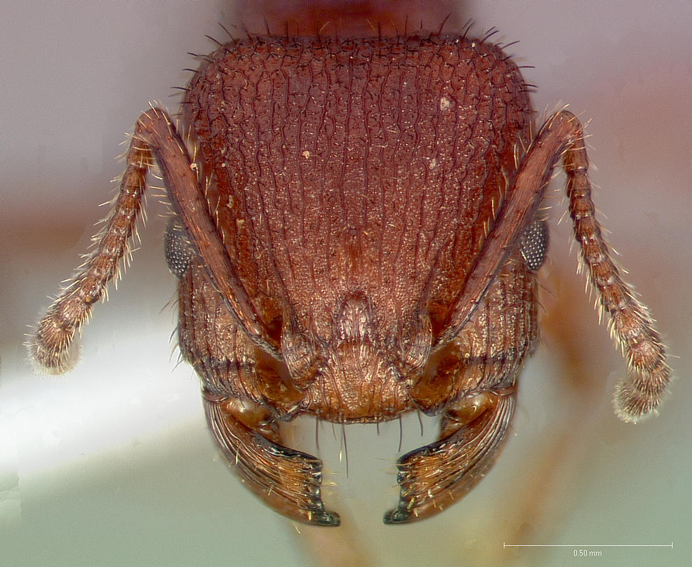 Head view of ant Pogonomyrmex imberbiculus specimen casent0005713.